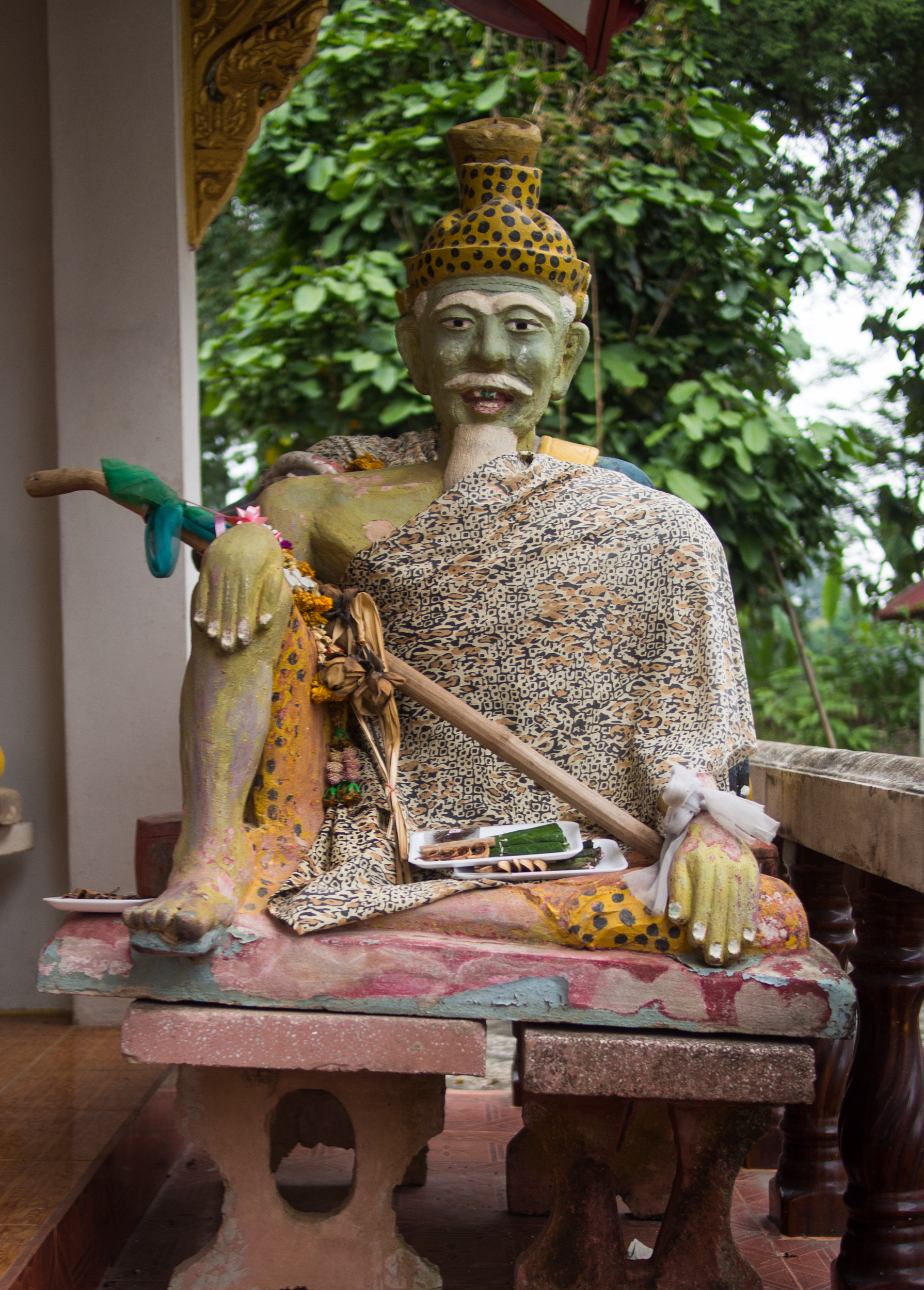 A statue of a ruesi (Thai script: ฤษี), a Thai hermit and/or mystic, in his usual attire, at Wat Suan Tan. Ruesi perform certain specific rituals, practice astrology, alternative medicine, and create amulets. Their mysticism is infused with Buddhist and animist practices.